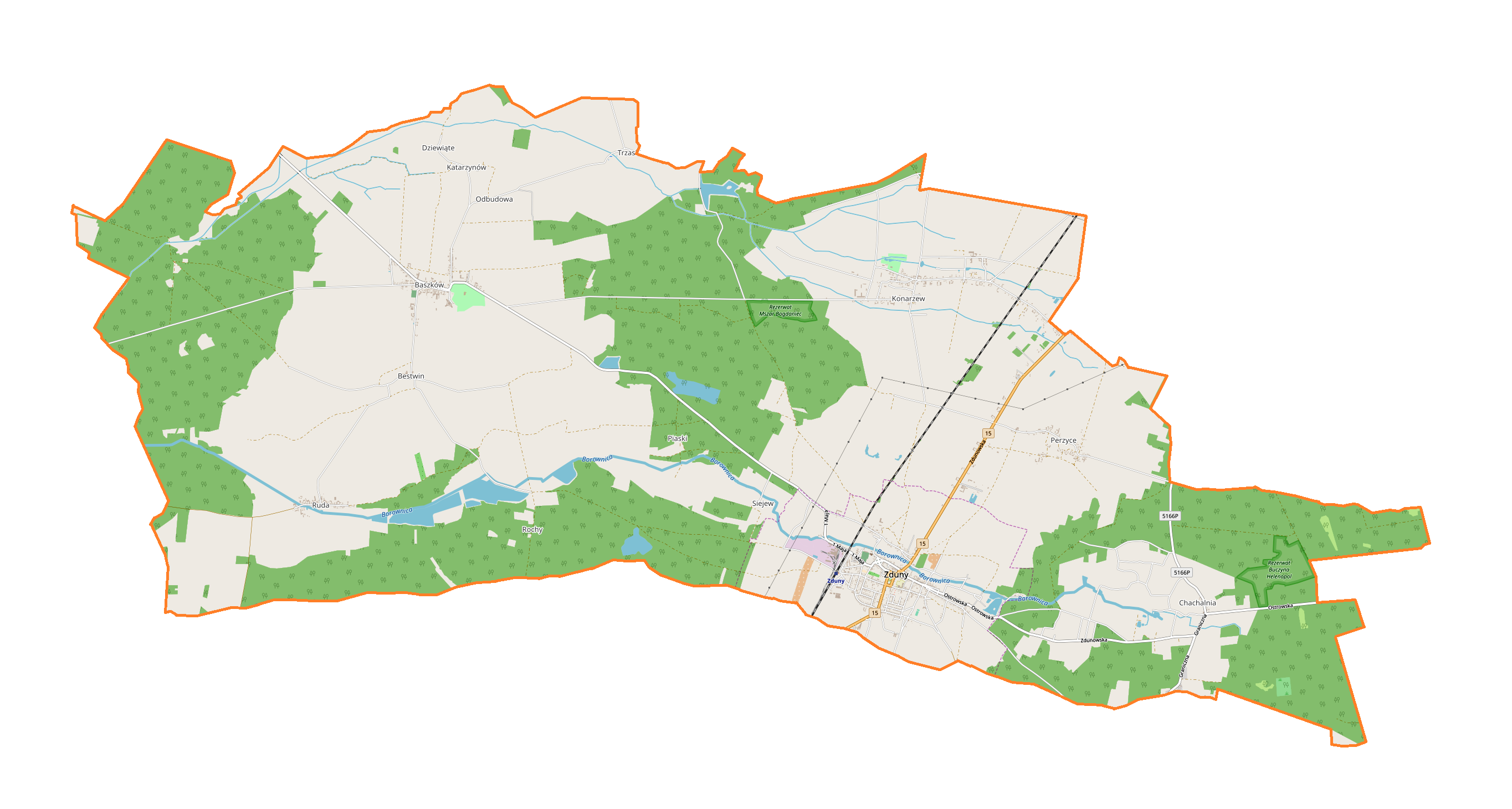 Map of Gmina Zduny, Poland This map of Zduny (gmina w województwie wielkopolskim) was created from OpenStreetMap project data, collected by the community. This map may be incomplete, and may contain errors. Don't rely solely on it for navigation.